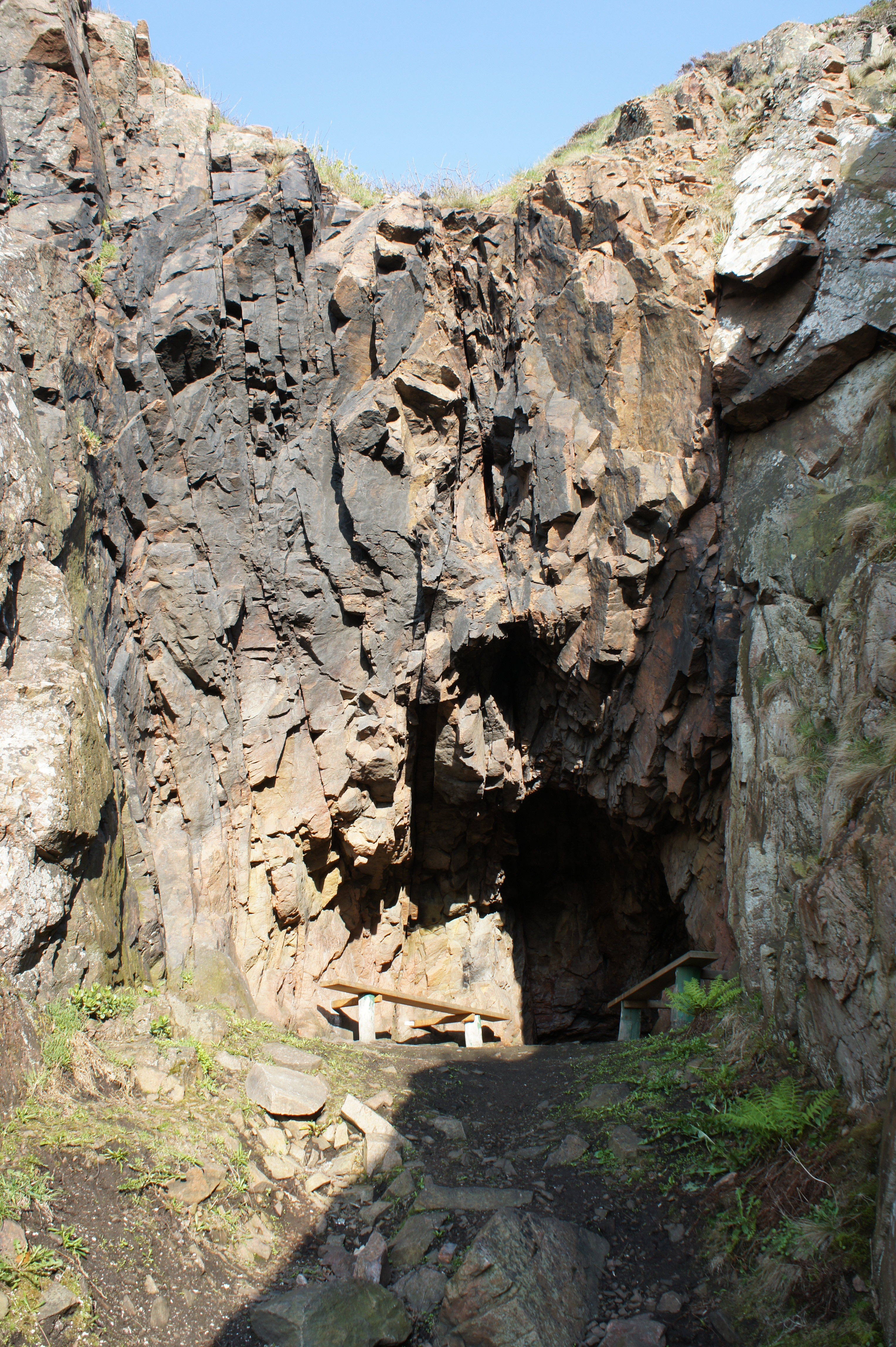 The cave "Större Josefinelustgrottan" at Kullaberg, Sweden